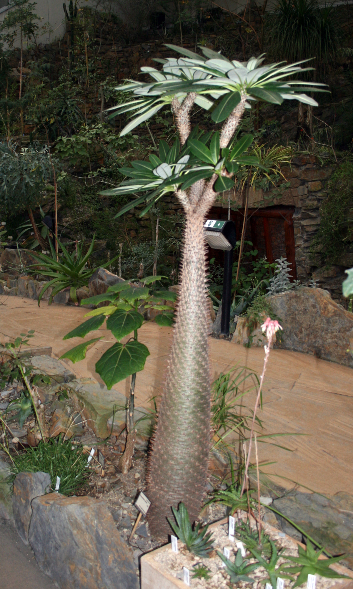 Pachypodium lamerei, Prague botanic garden Date= January 2008 Author= Karelj